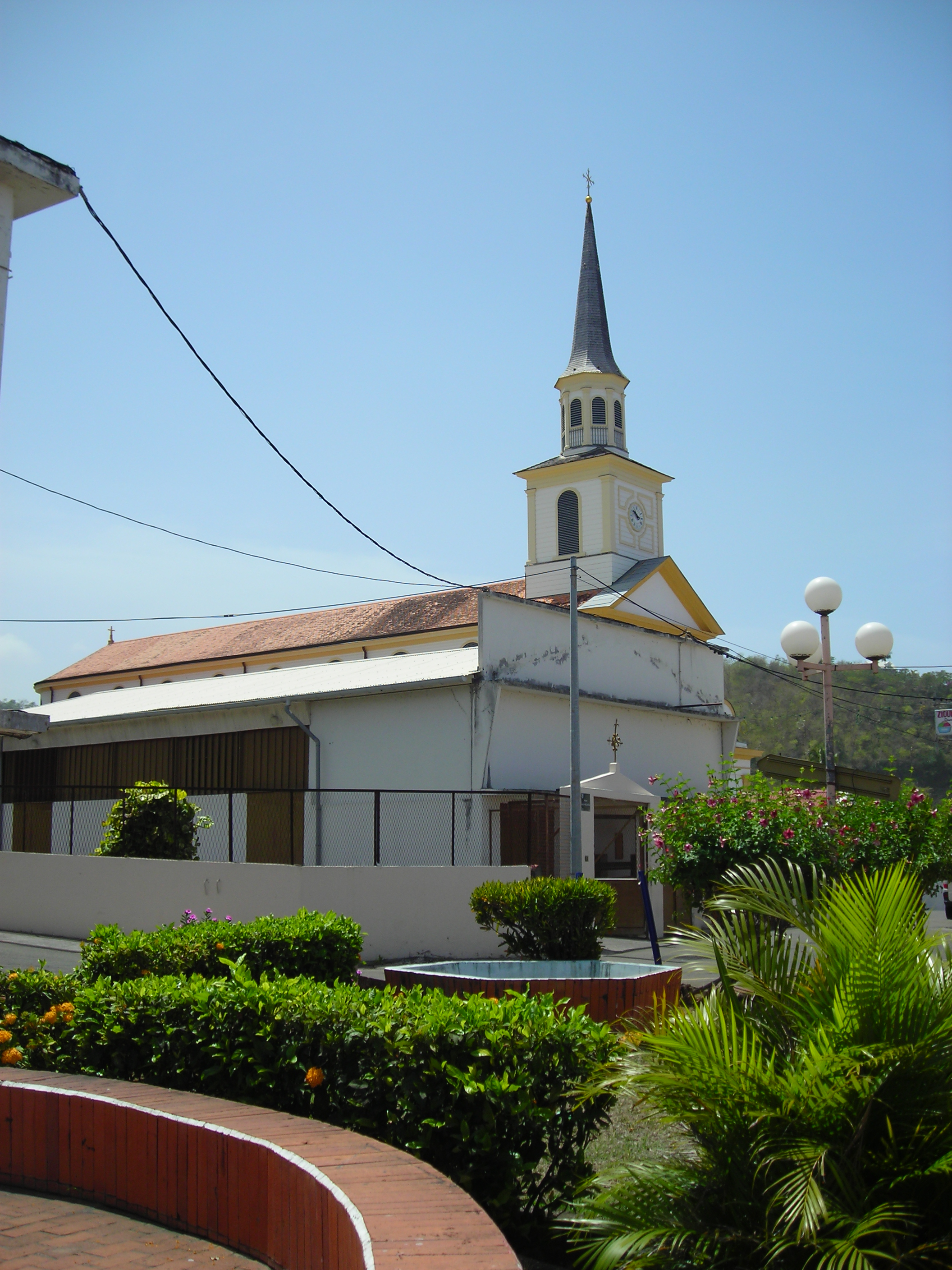 Church of Le Carbet